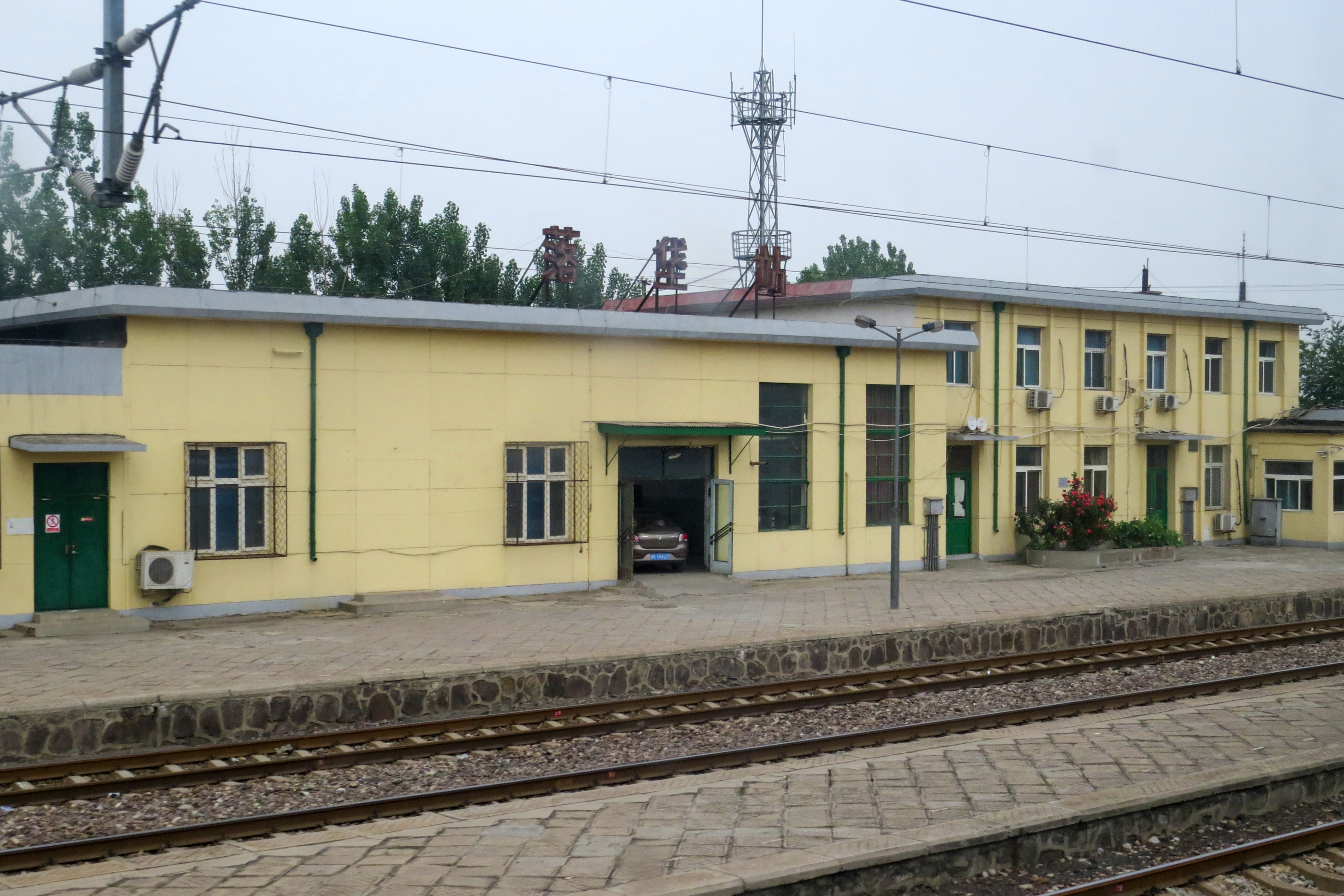 Taken on the farewell tour of T5684.